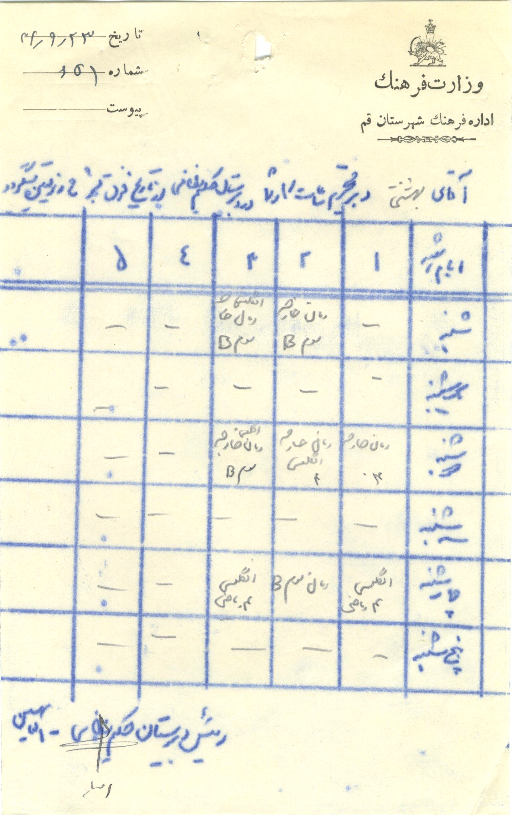 ساعات تدریس شهید آیت الله دکتر بهشتی در دبیرستان ماندگار امام صادق (ع) - حکیم نظامی- سال 1332